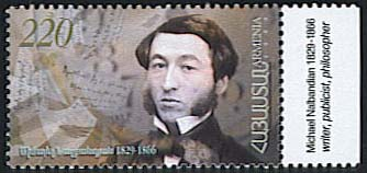 Stamp of Armenia